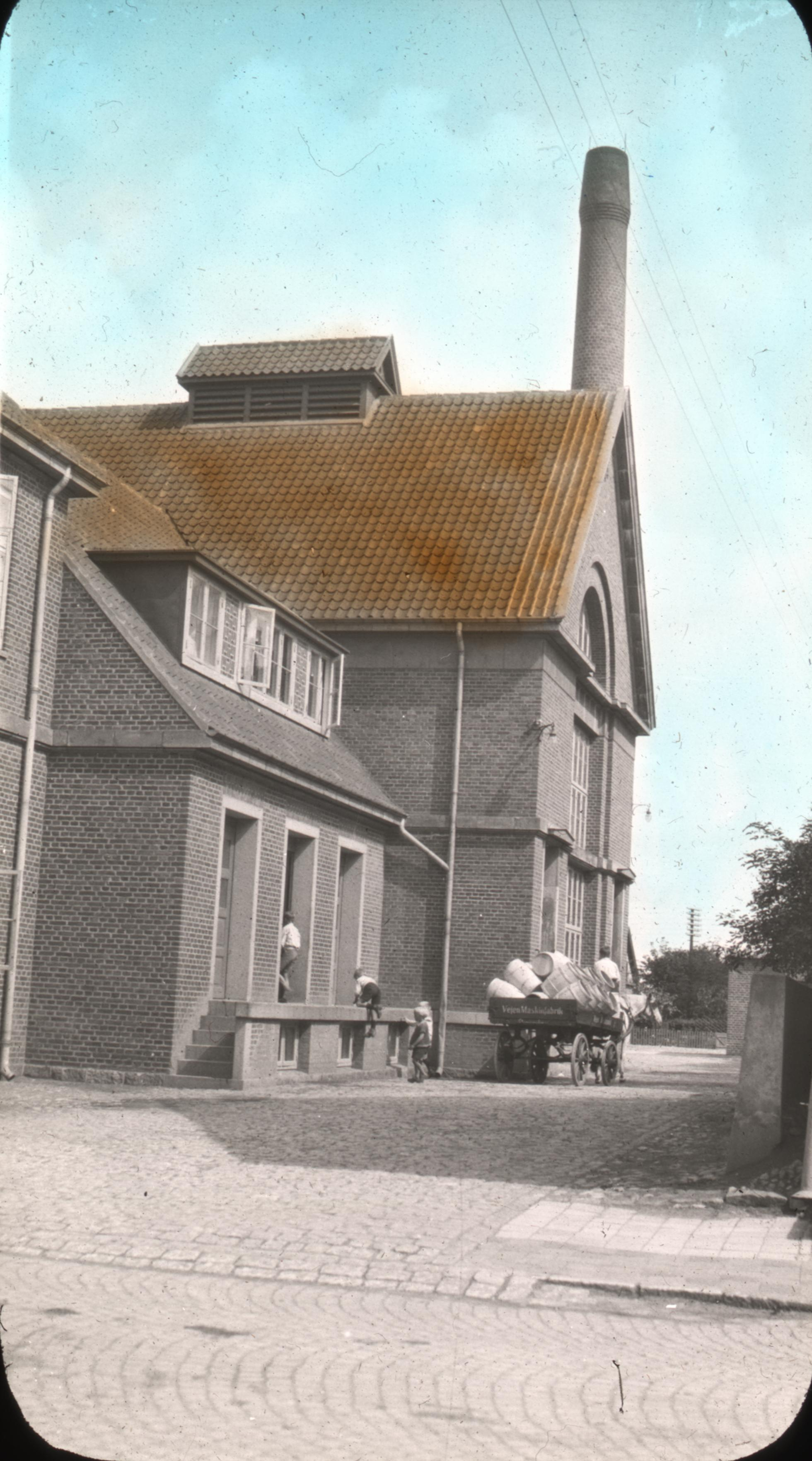 Image Description from historic lecture booklet: "One of the finest and largest of the cooperative butter factories is located at Vejen. It produces great quantities of butter for export. The Danes themselves, however, use comparatively little of this product." Original Collection: Visual Instruction Department Lantern Slides Item Number: P217:set 067 020 You can find this image by searching for the item number by clicking here. Want more? You can find more digital resources online. We're happy for you to share this digital image within the spirit of The Commons; however, certain restrictions on high quality reproductions of the original physical version may apply. To read more about what “no known restrictions” means, please visit the Special Collections & Archives website, or contact staff at the OSU Special Collections & Archives Research Center for details.